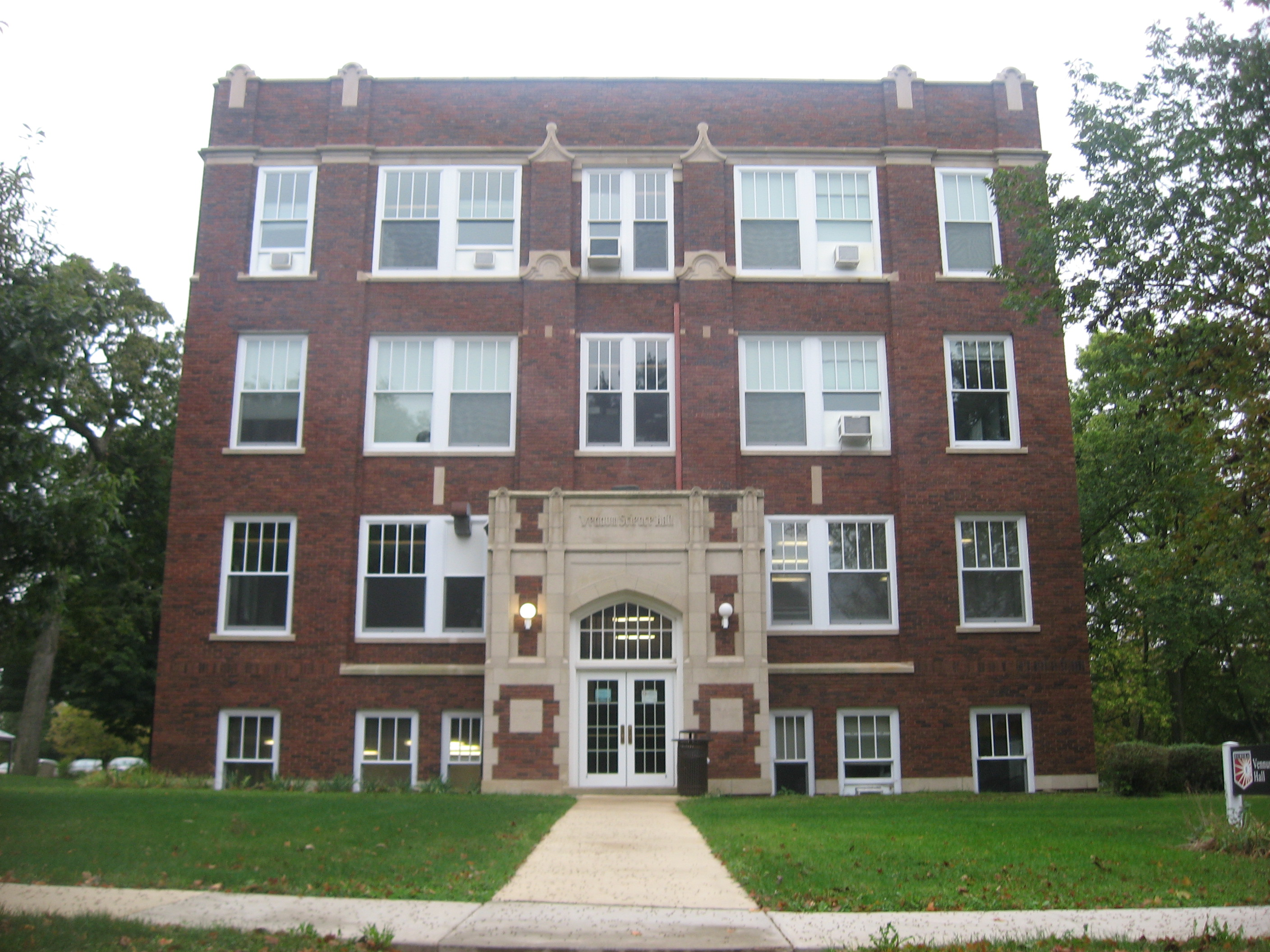 Front of Vennum-Binkley Hall on the campus of Eureka College in Eureka, Illinois, United States. Built in 1917, it is part of the Eureka College Campus Historic District, a historic district that is listed on the National Register of Historic Places.